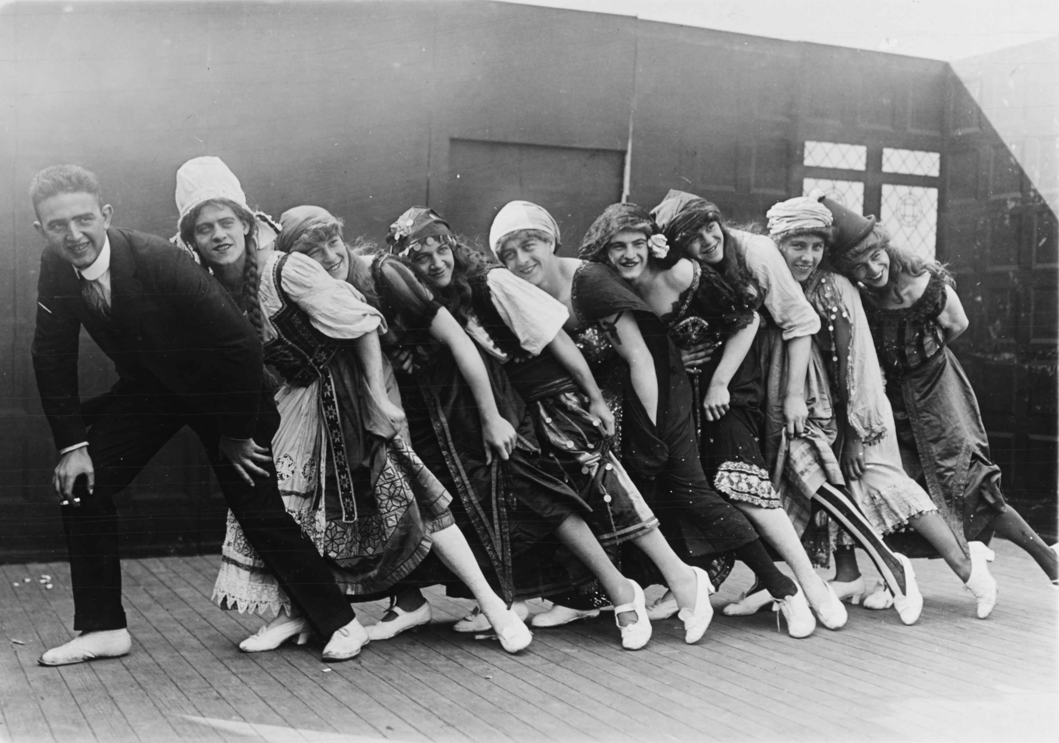 Crewmen participating in the ship's revue, while she was serving with the Sixth Battle Squadron in British waters, 1918. Collection of Lieutenant Commander P.W. Yeatman, USN (Retired). U.S. Naval History and Heritage Command Photograph.